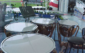 Timpani